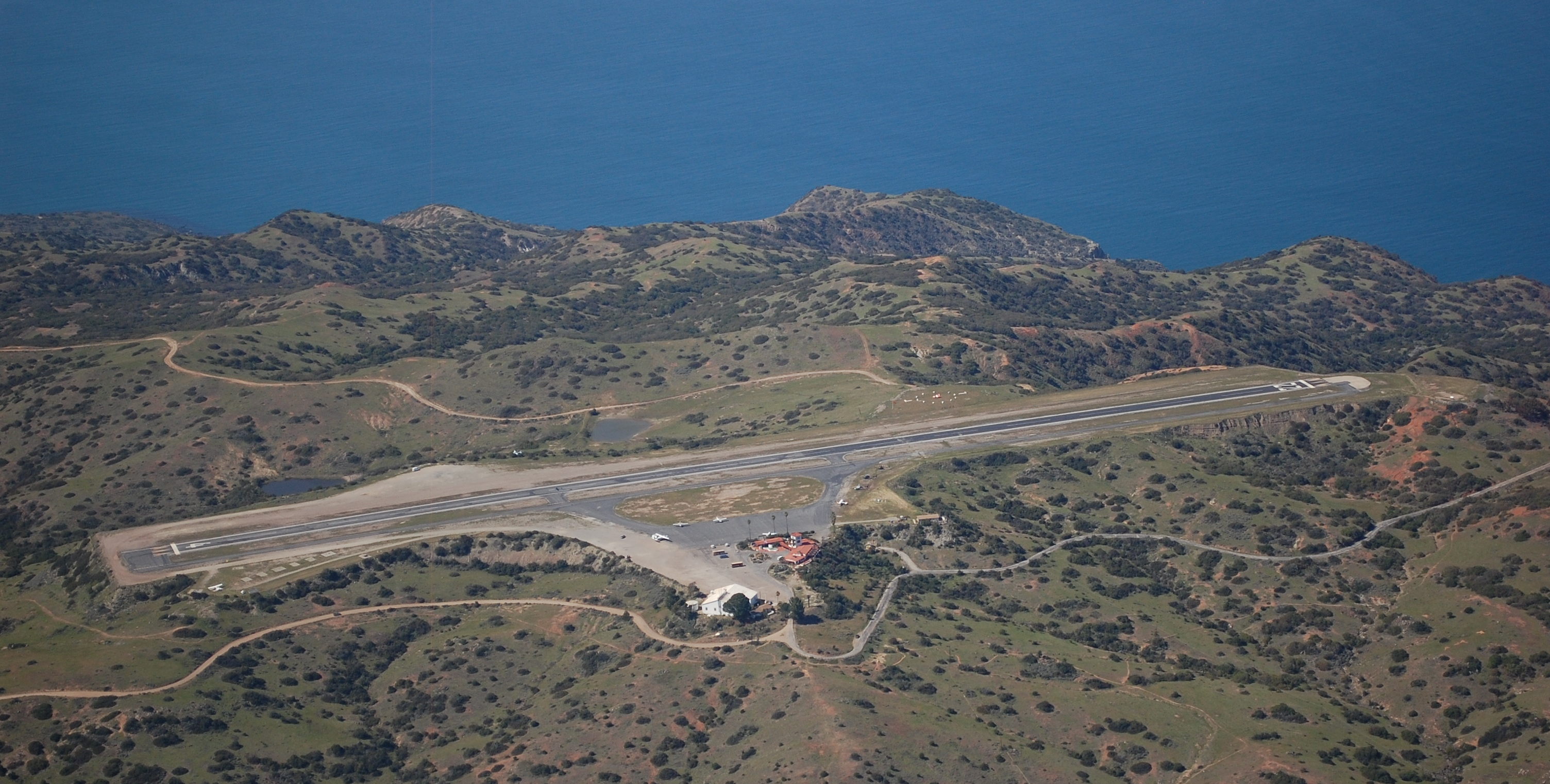 The Catalina Airport as seen from the air.